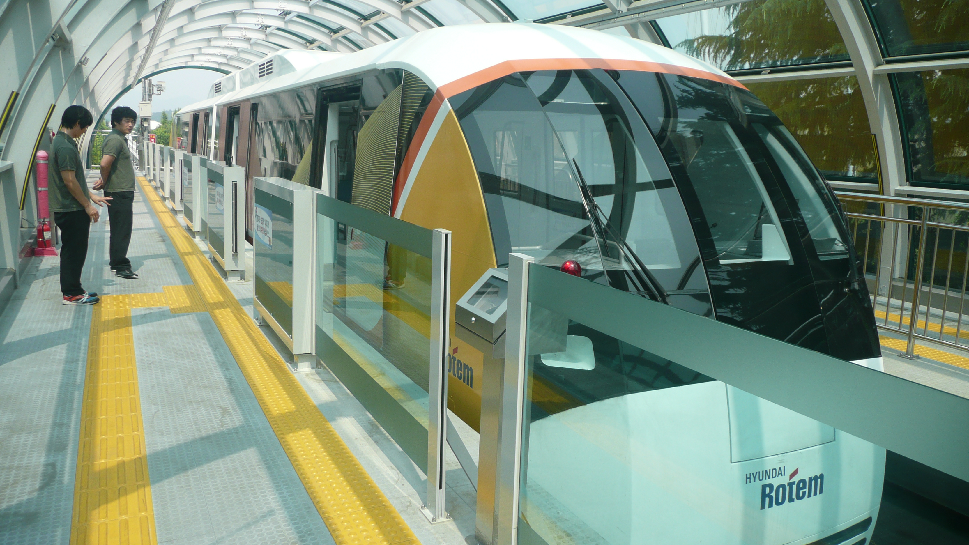 Maglev in Daejeon, Korea